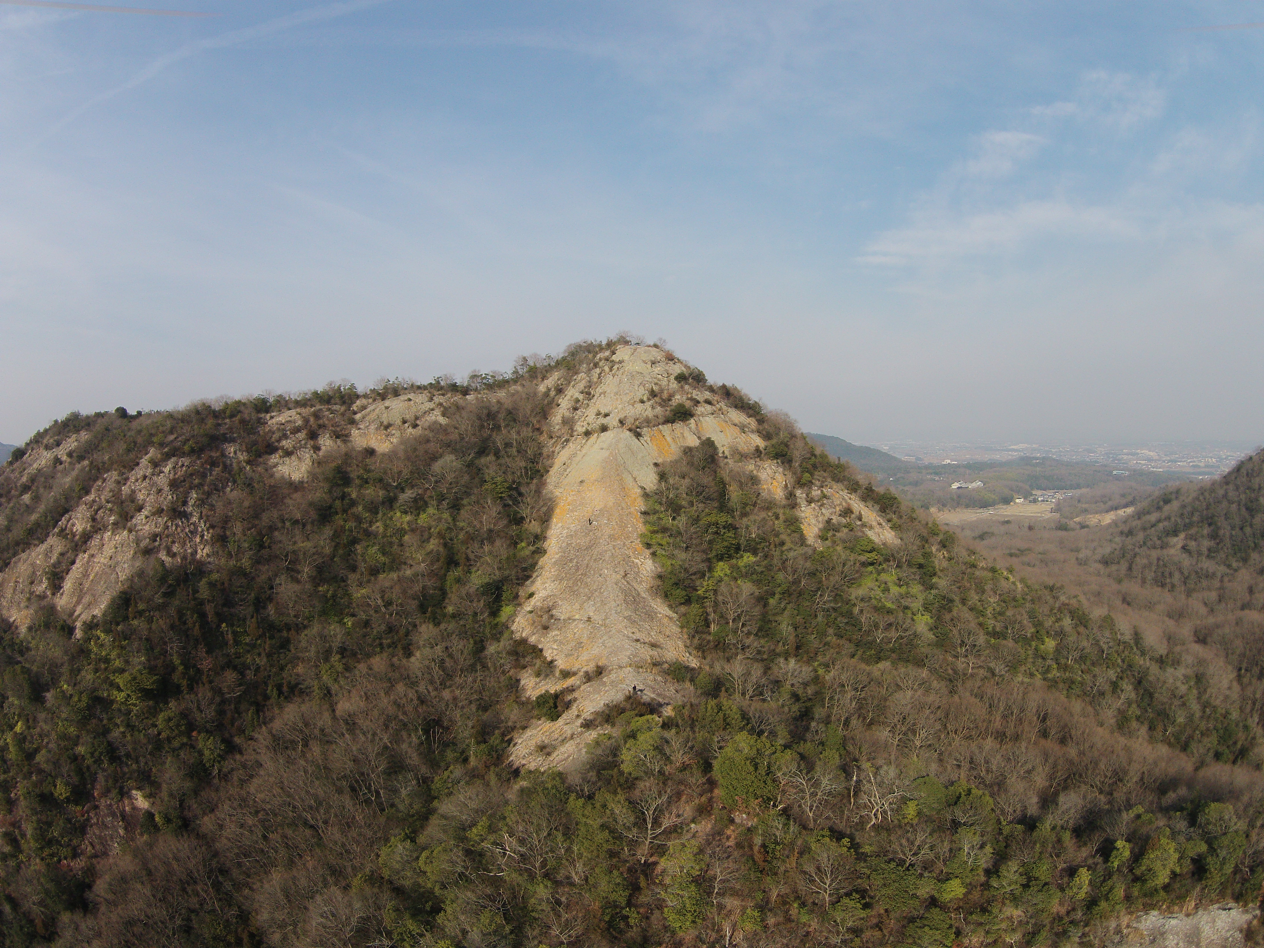 Mount Beni (Beni-yama) in between the Ono and Kakogawa, Hyogo Prefecture.